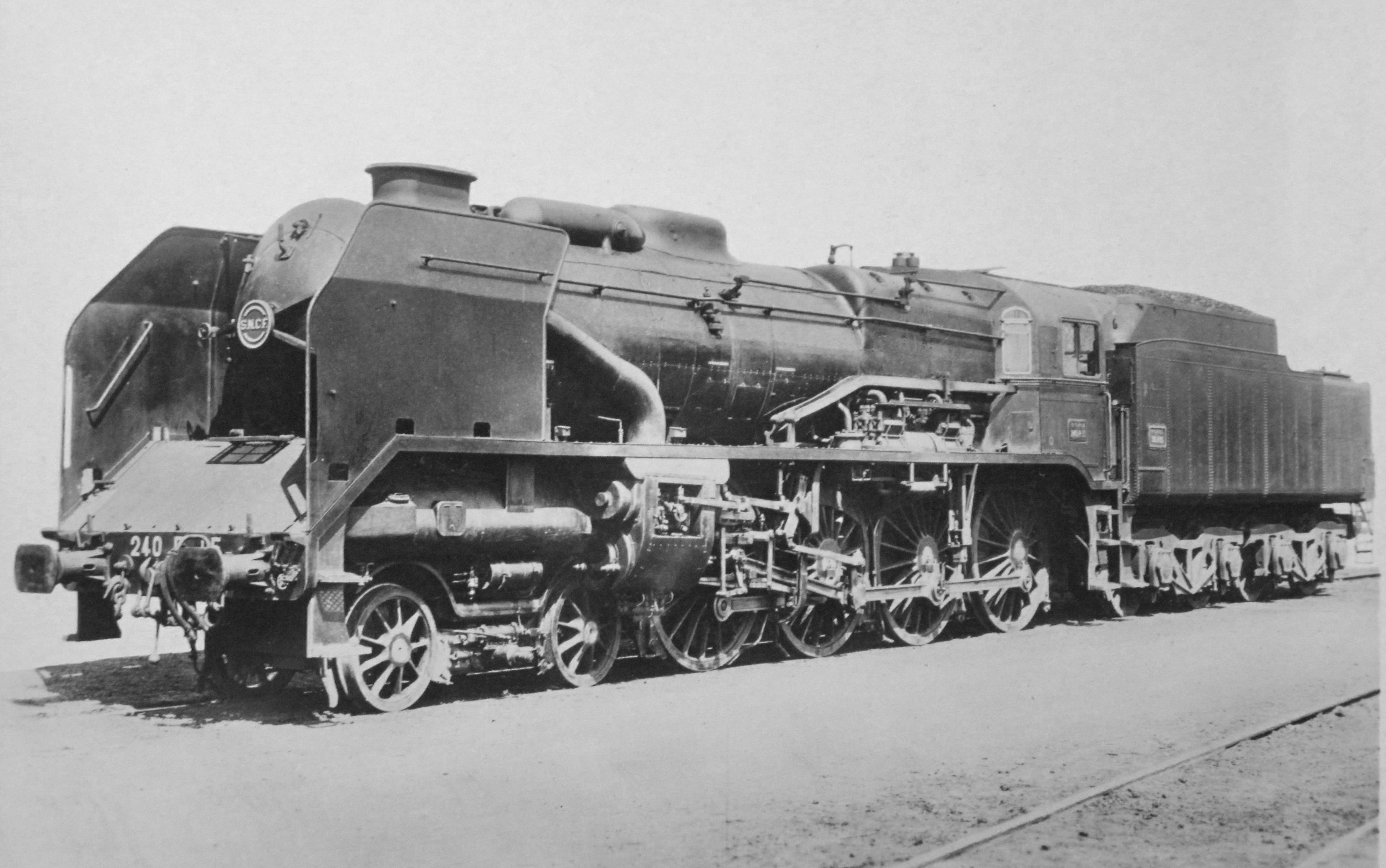 Locomotive type 4-8-0 P of SNCF